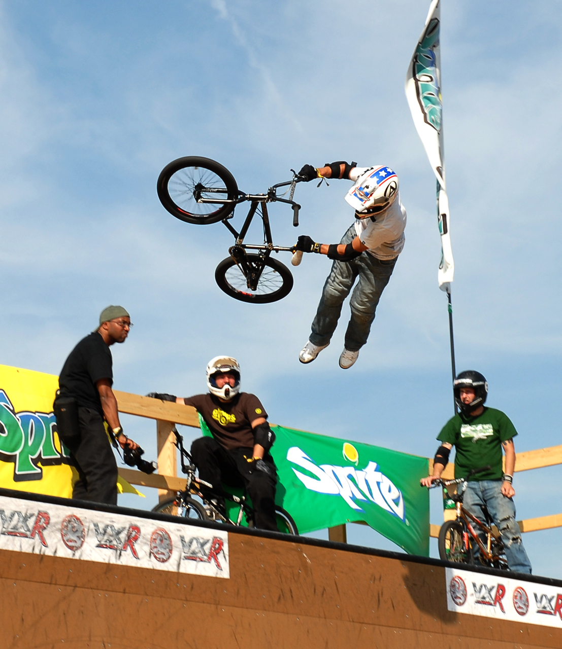 bmx vert jump at the sprite urban games 2006 in clapham common, london.